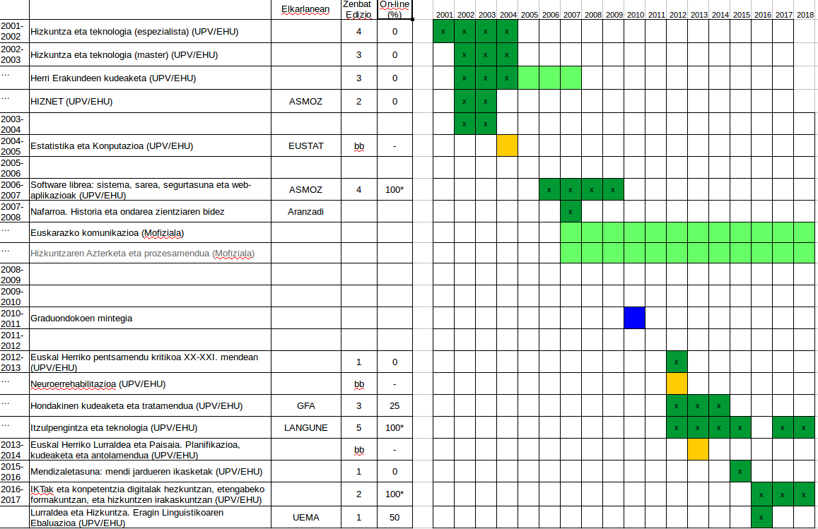 Postgraduate titles organised by the Basque Summer University from 2001 to 2018.